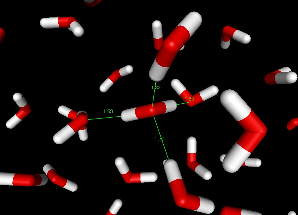 Made by User:Itub using WeblabViewer, from a TIP4P water simulation.